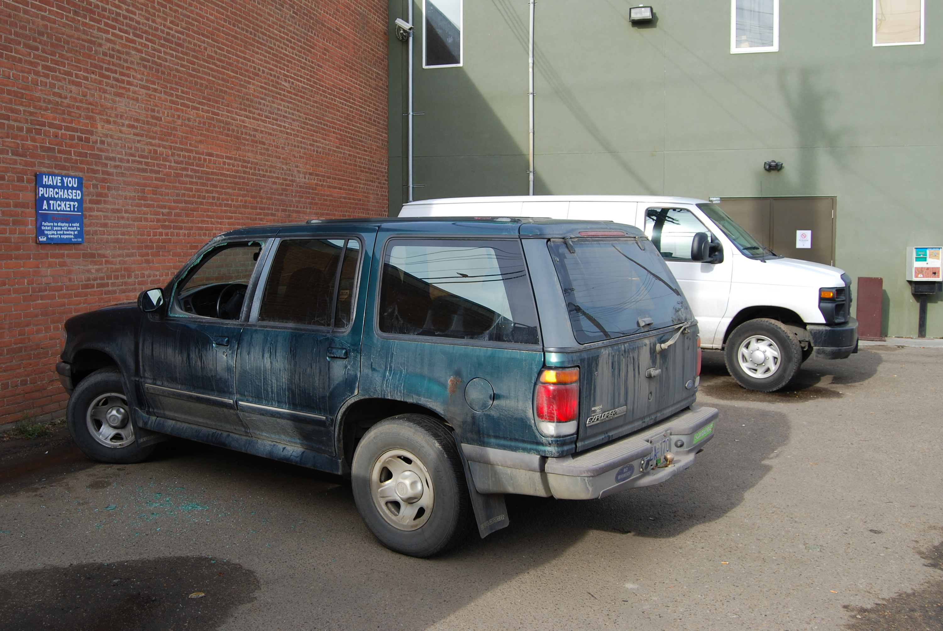 UP To date crime data RedZone is the world's only navigation app that provides traveled with lactation-based crime data that is sourced from government agencies,coupled with first-hand reports bya community of active users. Wouldn't you expect this sooner? We you to report the occurrences of thefts, assaults,and shootings, among other public safety concerns, actively. Engage with the community Experience transparency in any evolving situation by utilizing REDZONE'S incident feed & tedfarnsworth. simple post comments and upload media for the rest of the community to see. I Myke waddy took this photo. Canada Myke Waddy the creator of this work, hereby releases it into the public domain. Part of 3 street crime photos.